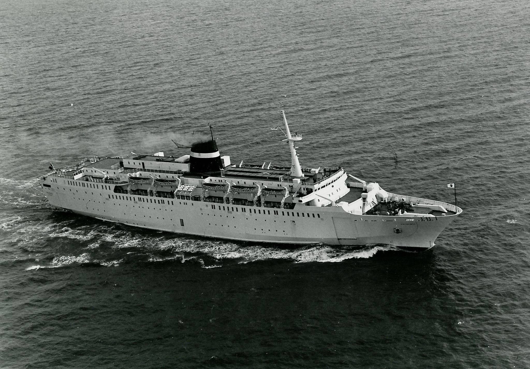 MS Provence in Marseilles (1975)